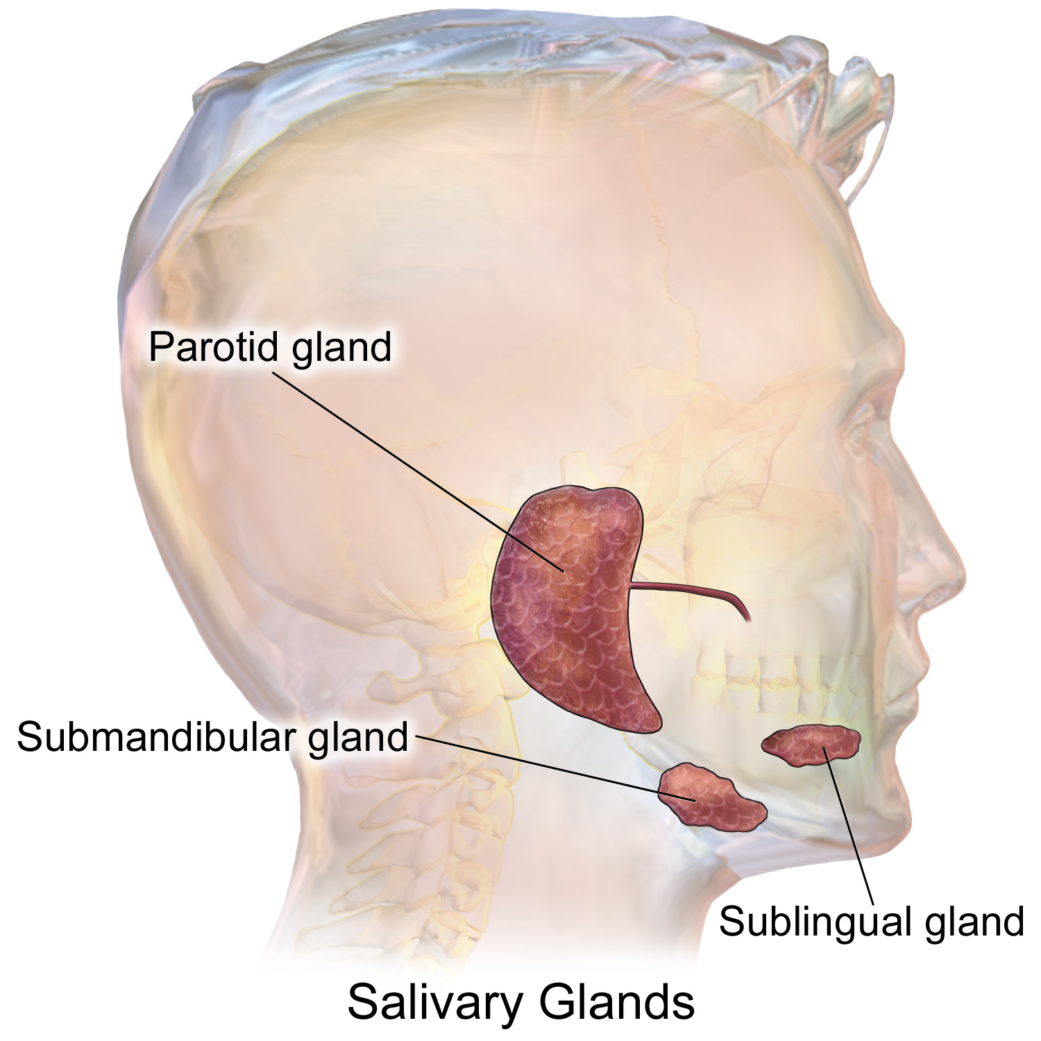 Salivary Glands. See a full animation of this medical topic.